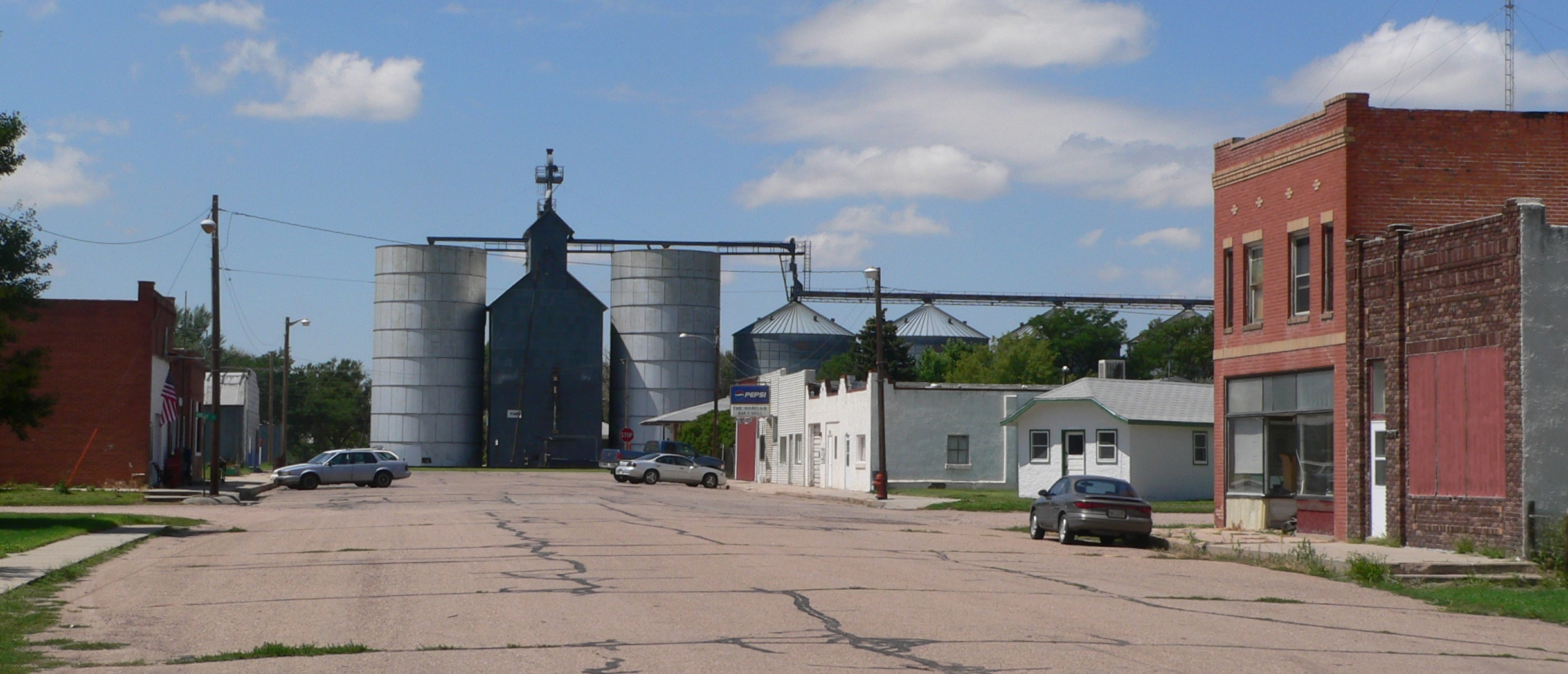 Gurley, Nebraska: camera facing west.